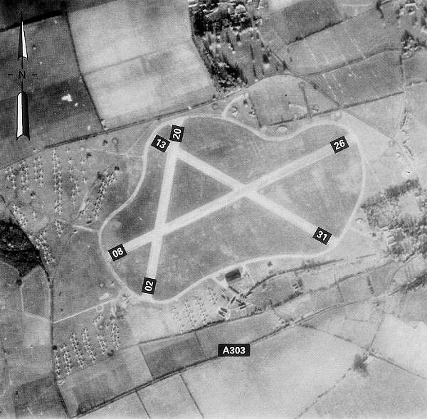 Aerial photograph of Thruxton Airfield, England.